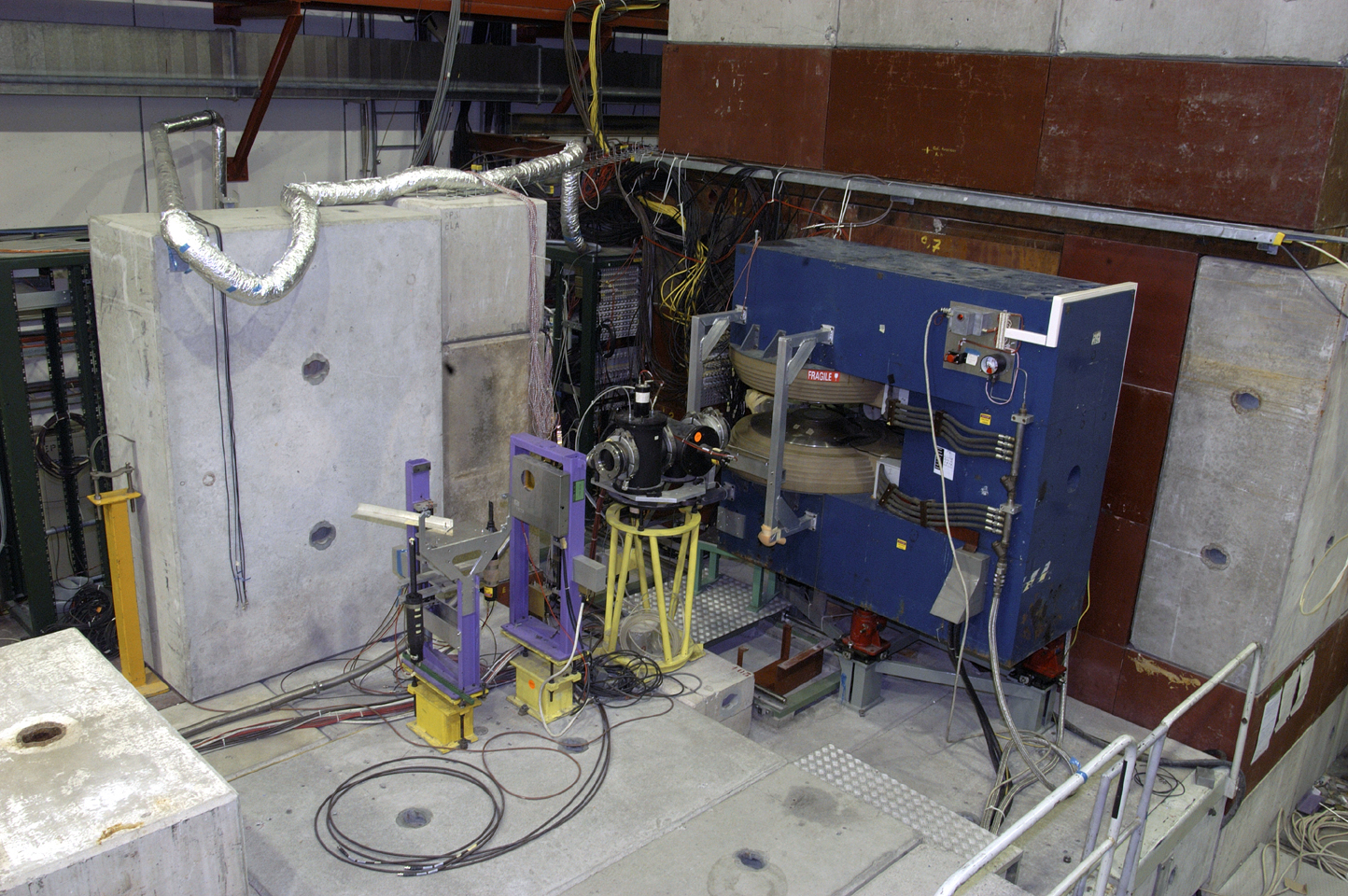 The detector of the NA60 experiment situated in the CERN hall B911.